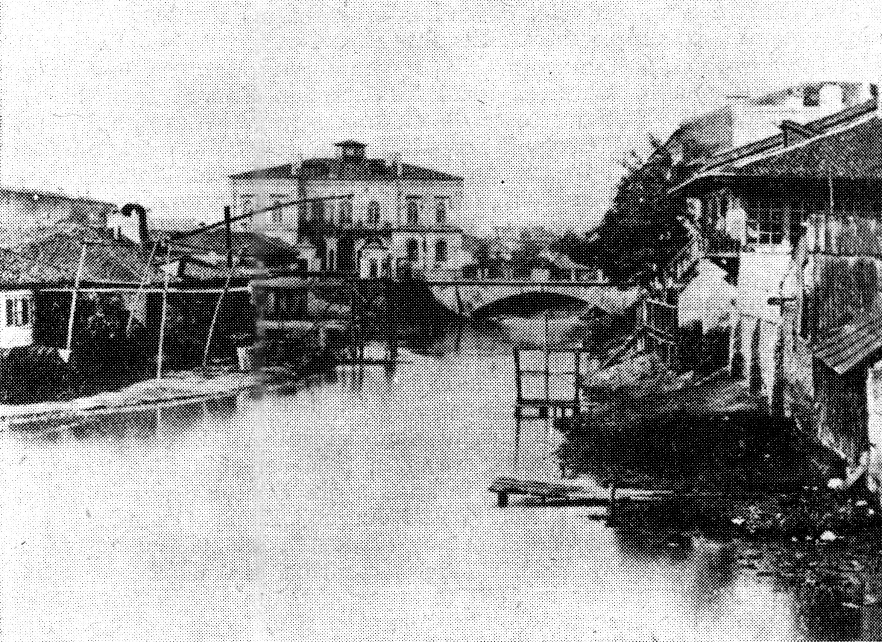 Podul Calicilor (today Calea Rahovei), Bucharest. 'Podul Calicilor literally means "Bridge of Greedy", but Podul (especially at that time) can mean a well-built road, as well as a bridge. Podul Calicilor was the old name of Calea Rahovei ("Rahovei Street") leading from Bucharest to Rahova, then a suburb, now a city neighborhood.